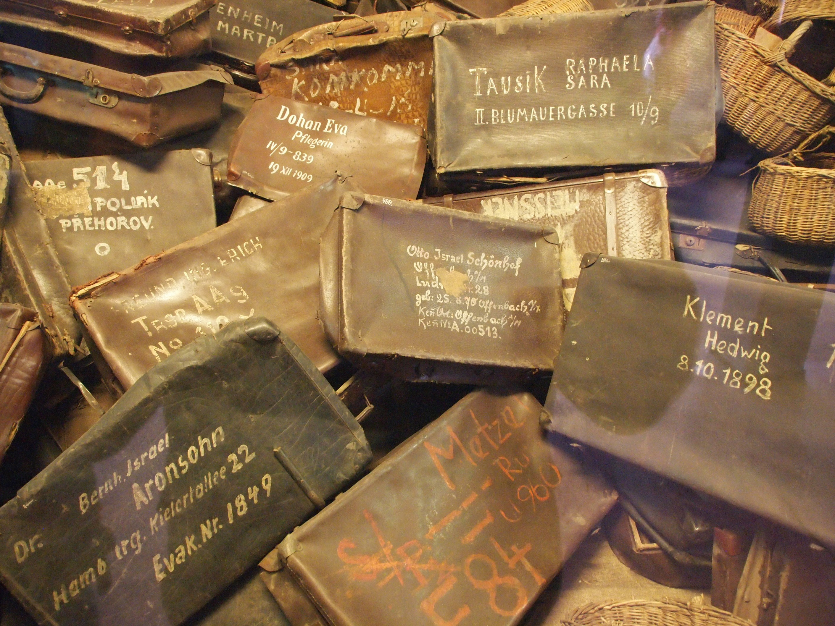 Auschwitz concentration camp (German: Konzentrationslager Auschwitz) was a network of concentration and extermination camps built and operated by the Third Reich in Polish areas annexed by Nazi Germany during World War II. It consisted of Auschwitz I (the original camp), Auschwitz II–Birkenau (a combination concentration / extermination camp), Auschwitz III–Monowitz (a labor camp to staff an IG Farben factory), and 45 satellite camps. Auschwitz I was first constructed to hold Polish political prisoners, who began to arrive in May 1940. The first extermination of prisoners took place in September 1941, and Auschwitz II–Birkenau went on to become a major site of the Nazi "Final Solution to the Jewish question". From early 1942 until late 1944, transport trains delivered Jews to the camp's gas chambers from all over German-occupied Europe, where they were killed with the pesticide Zyklon B. At least 1.1 million prisoners died at Auschwitz, around 90 percent of them Jewish; approximately 1 in 6 Jews killed in the Holocaust died at the camp.[1][2] Others deported to Auschwitz included 150,000 Poles, 23,000 Romani and Sinti, 15,000 Soviet prisoners of war, 400 Jehovah's Witnesses, homosexuals, and tens of thousands of people of diverse nationalities. Living conditions were brutal, and many of those not killed in the gas chambers died of starvation, forced labor, infectious diseases, individual executions, and medical experiments. Source